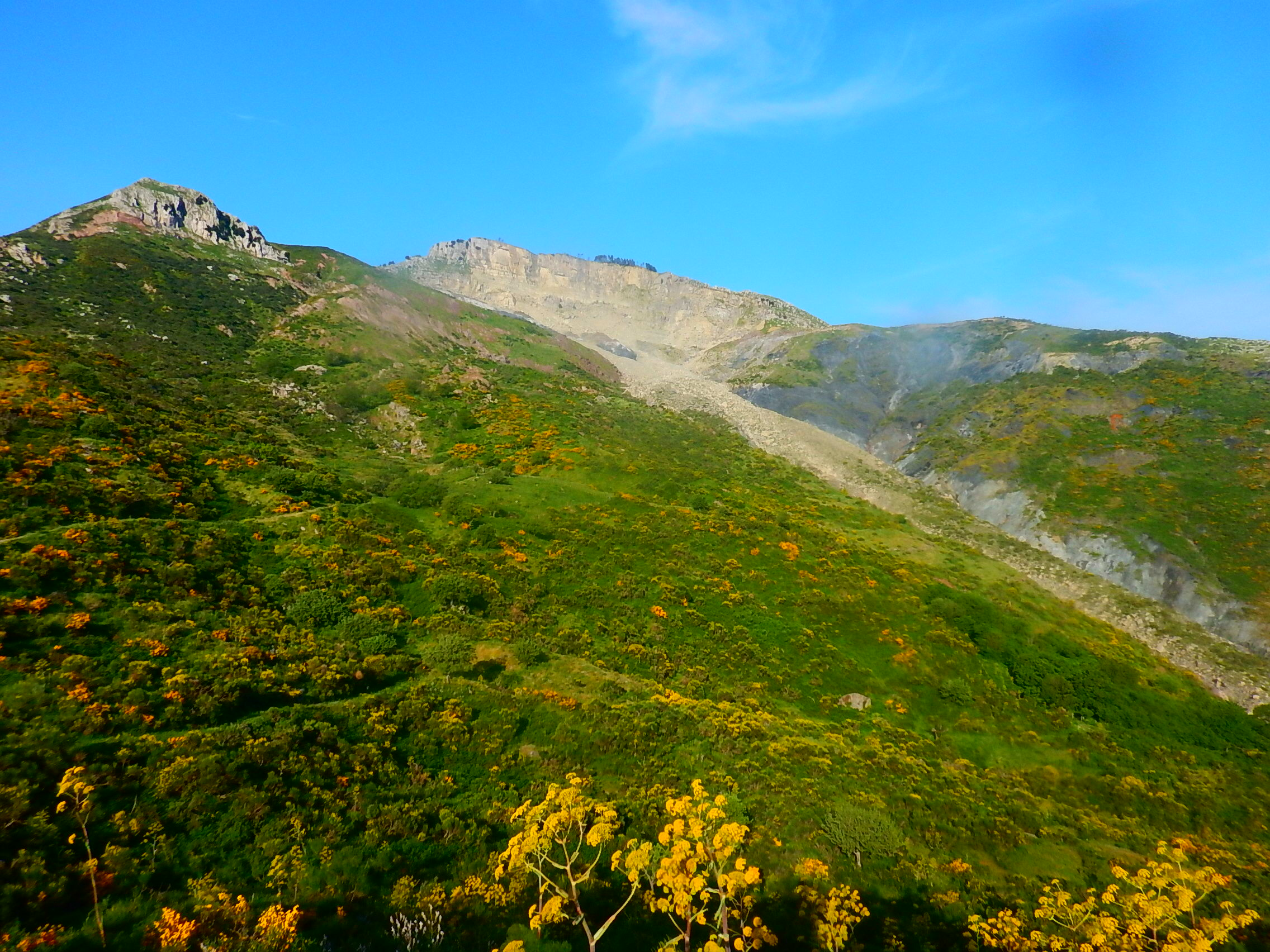 Mount Ritagli di Lecca,1209 m, Fondachelli Fantina, Sicily